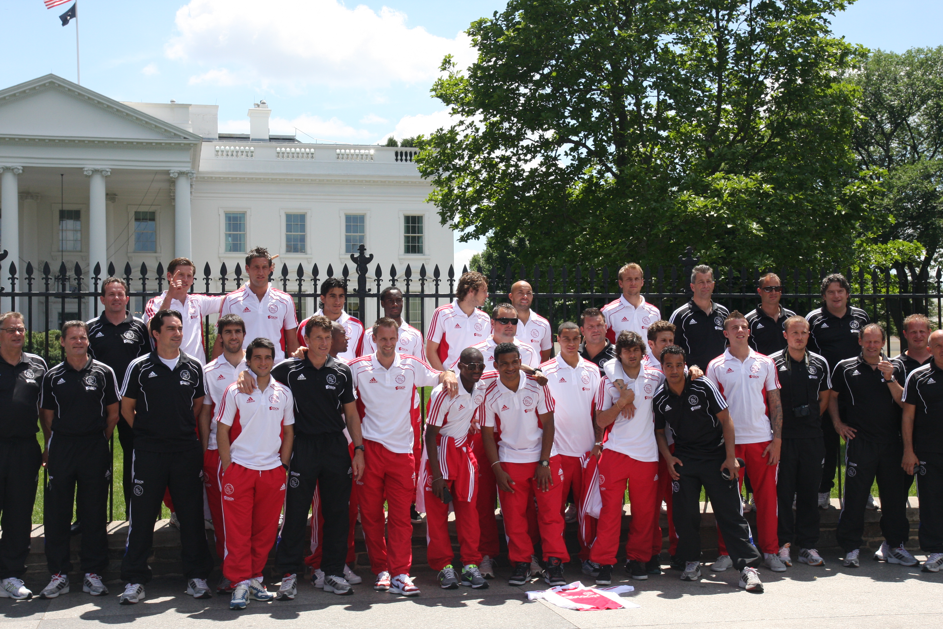 Players of Ajax Amsterdam at the White House.